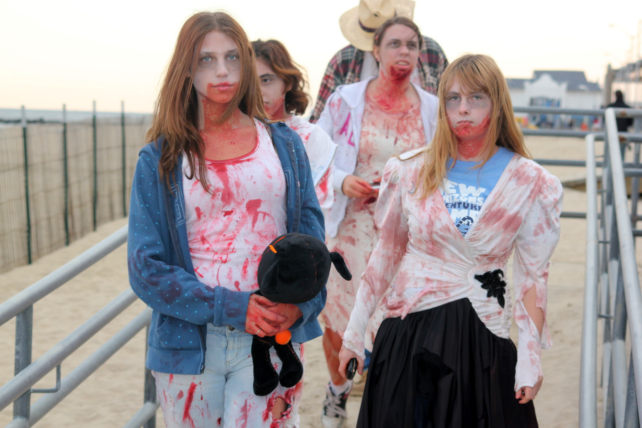 Asbury Park, New Jersey